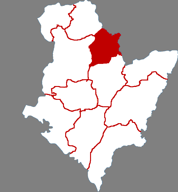 Location of Wuqiang county in Hengshui City, China